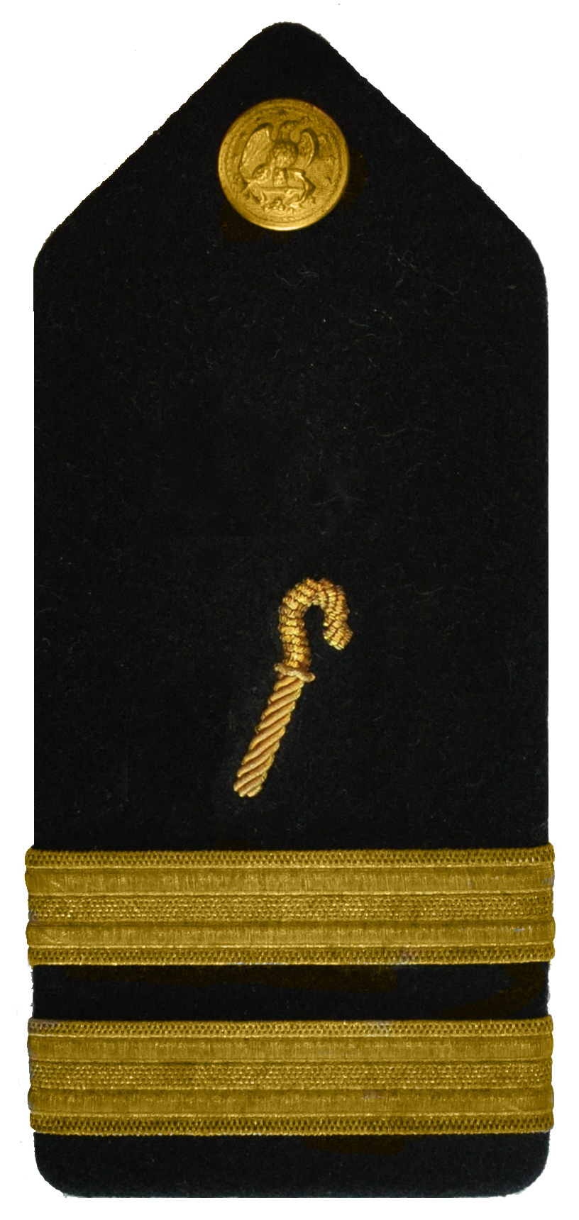 Artist's depiction of the U.S. Navy uniform shoulder board for Jewish chaplains formerly used, before the adoption of the current insignia (Tablets of the Ten Commandments, topped by a six-pointed Star of David). Details in wikipedia article "United States military chaplain symbols."